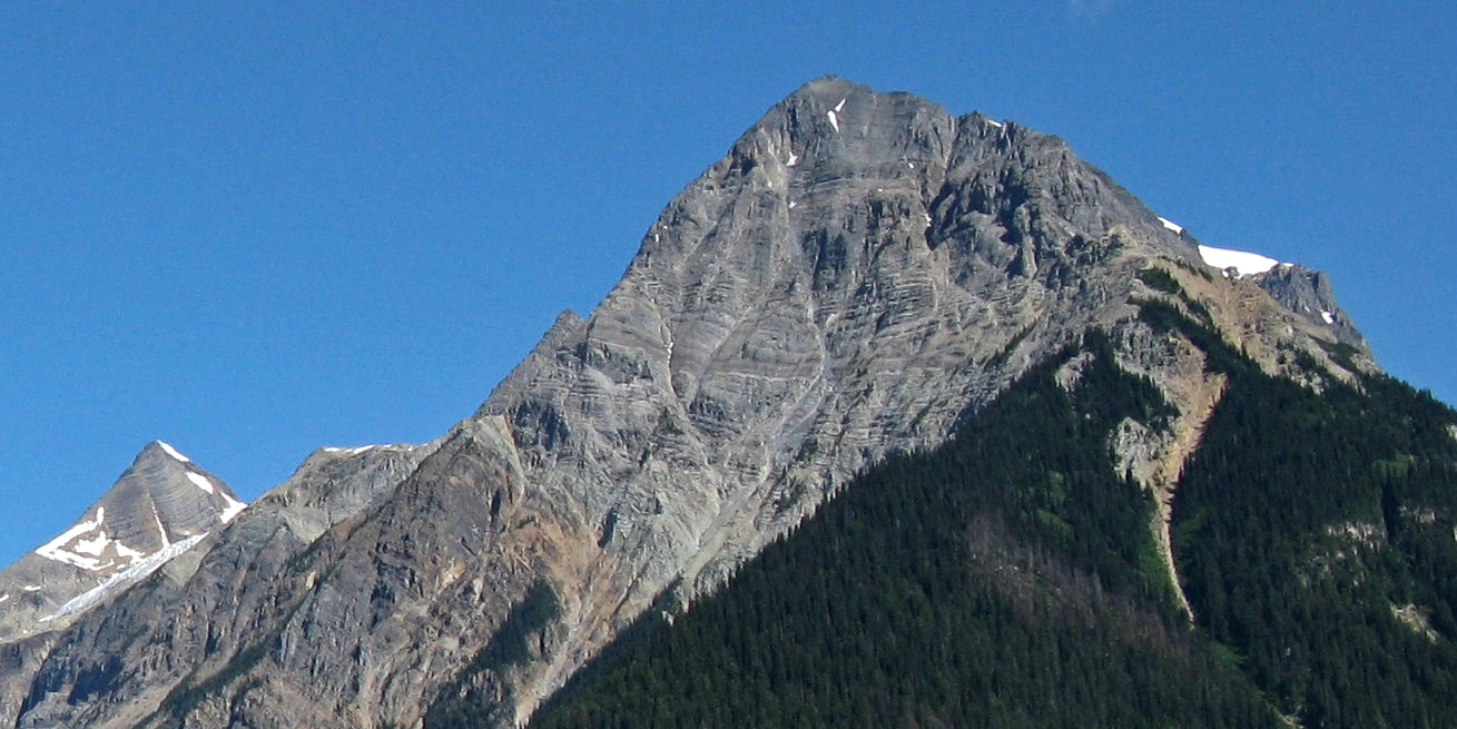 false summit of Cairnes